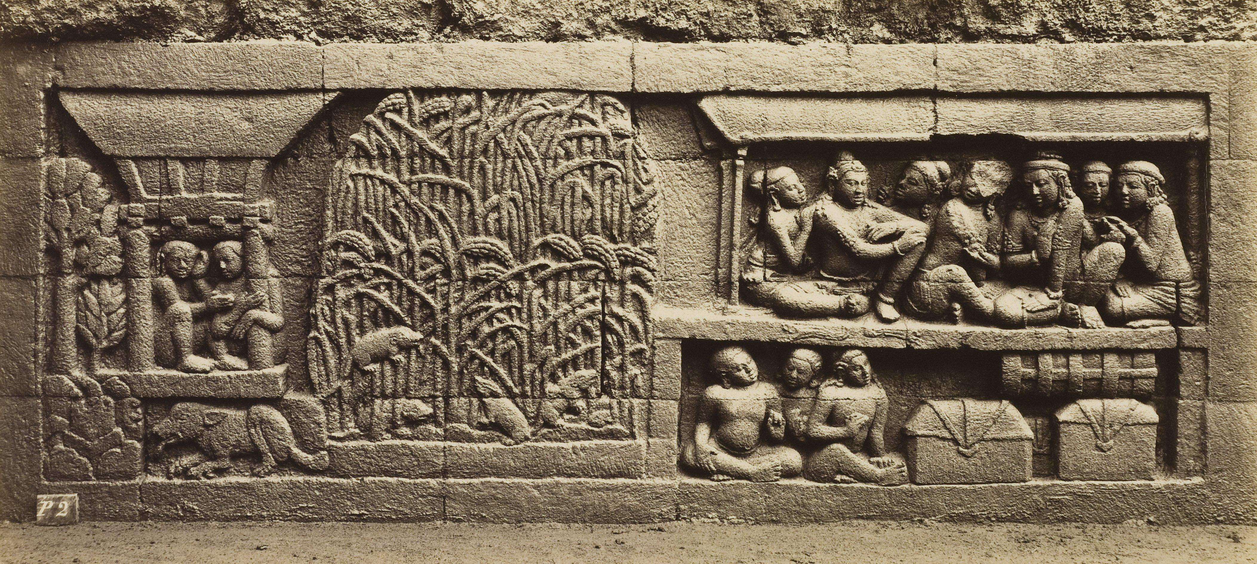 Relief of the hidden base of Borobudur